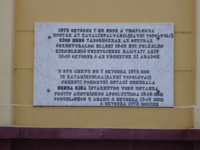 Memorial tablet of Hungarian general Ernő Kiss in Elemir (Hungarian: Elemér) /Vojvodina /Serbia